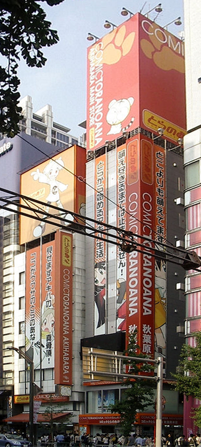 Animate and Toranoana in Akihabara Own re-uploaded image from Japanese Wikipedia.